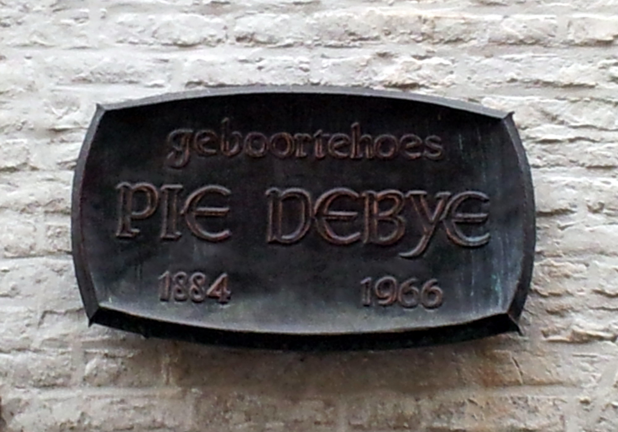 Maastricht, the Netherlands. Memorial plaque at the birth place of Nobel prize winner Peter Debye in Maastrichter Smedenstraat.